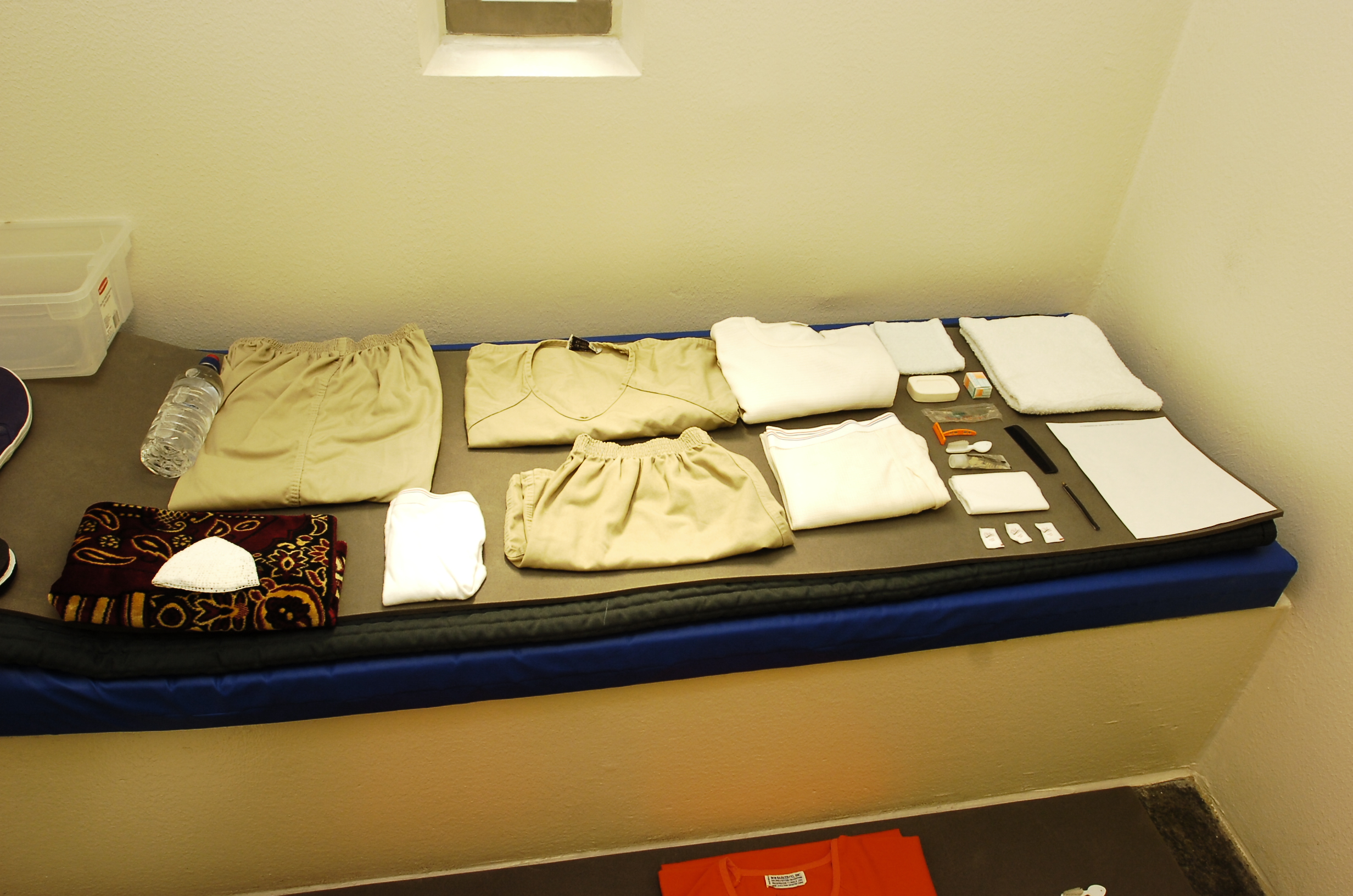 GUANTANAMO BAY, Cuba - Display of items is given to detainees in Camp 5. All detainees, regardless of status, receive a Koran, prayer mat, prayer beads and cap. Oct. 26, 2007. (JTF Guantanamo photo by Navy Petty Officer 1st Class Michael Billings)